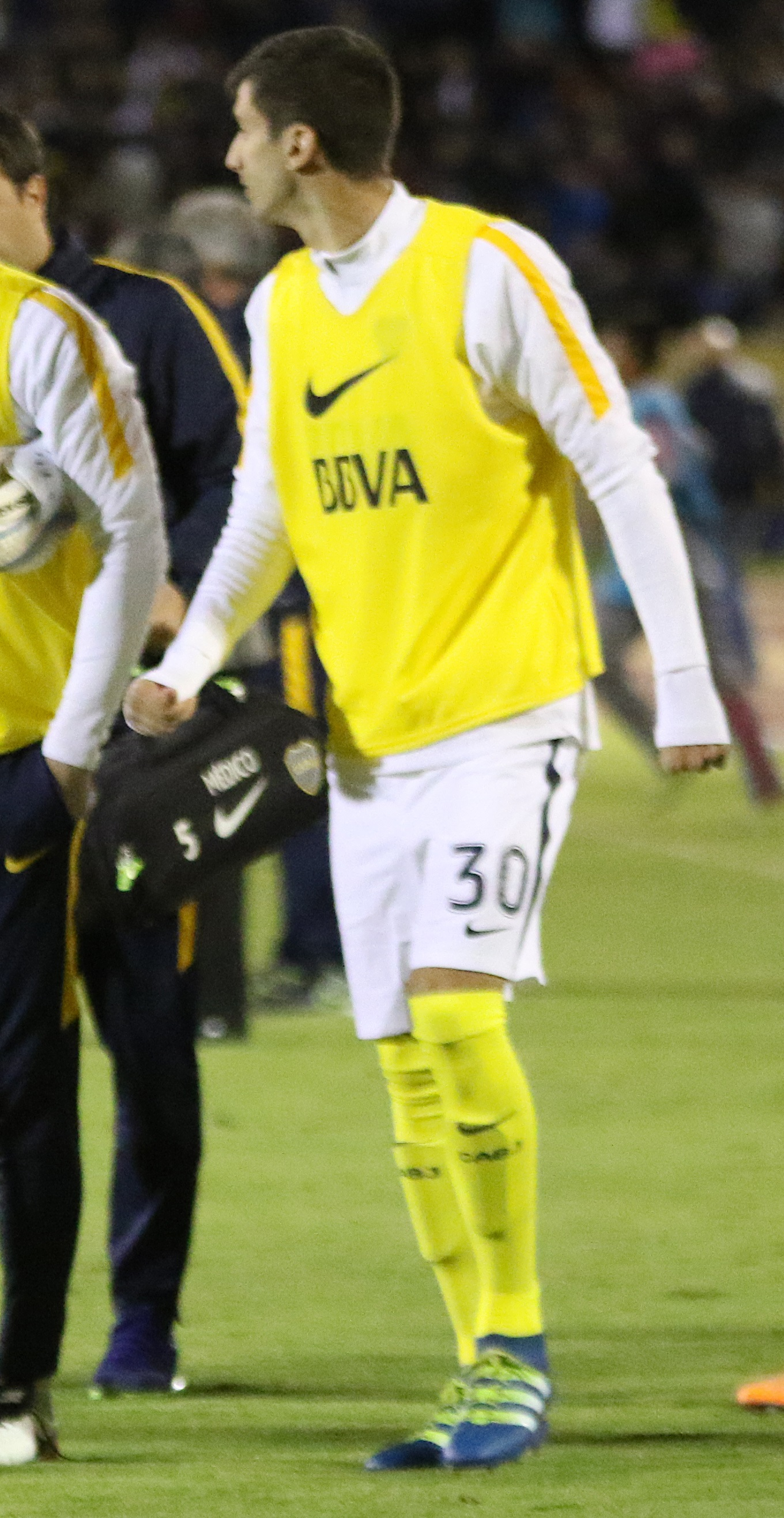 Rodrigo Bentancur, durante el entretiempo del partido Boca-Independiente del Valle.